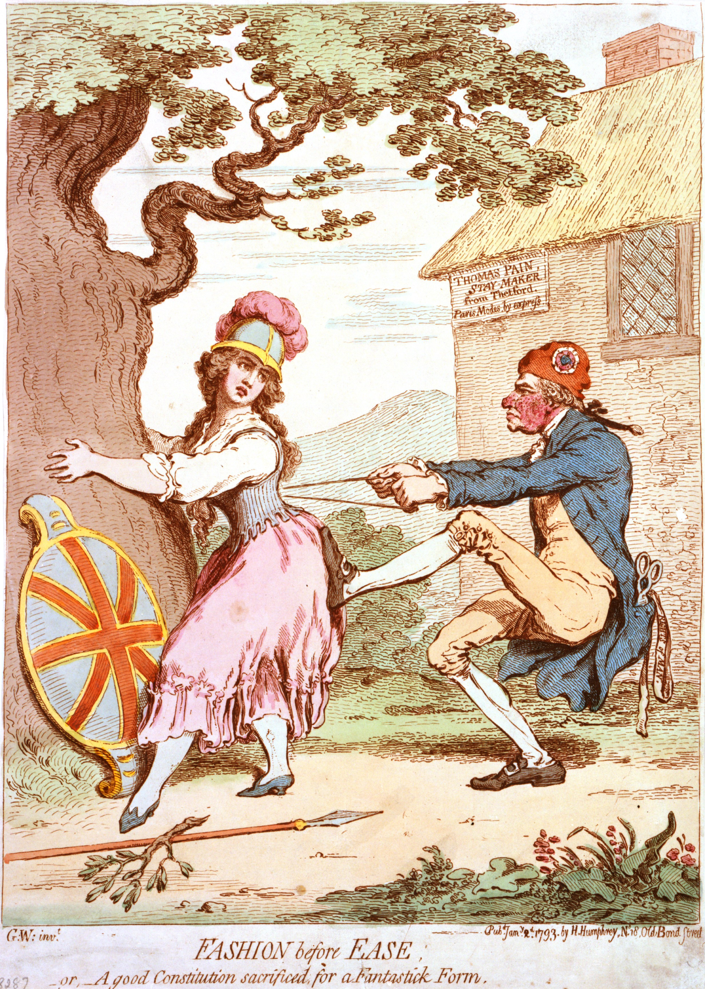 Fashion before Ease;—or,—A good Constitution sacrificed for a Fantastick Form G.W. invt. [Gillray f.] SUMMARY: Cartoon showing Britannia clasping trunk of a large oak, while Thomas Paine tugs with both hands at her stay laces, his foot on her posterior. From his coat pocket protrudes a pair of scissors and a tape inscribed: Rights of Man. Behind him is a thatched cottage inscribed: Thomas Pain, Staymaker from Thetford. Paris Modes, by express. MEDIUM: 1 print : engraving, color CREATED/PUBLISHED: [London] : Published by H. Humphrey, 1793.